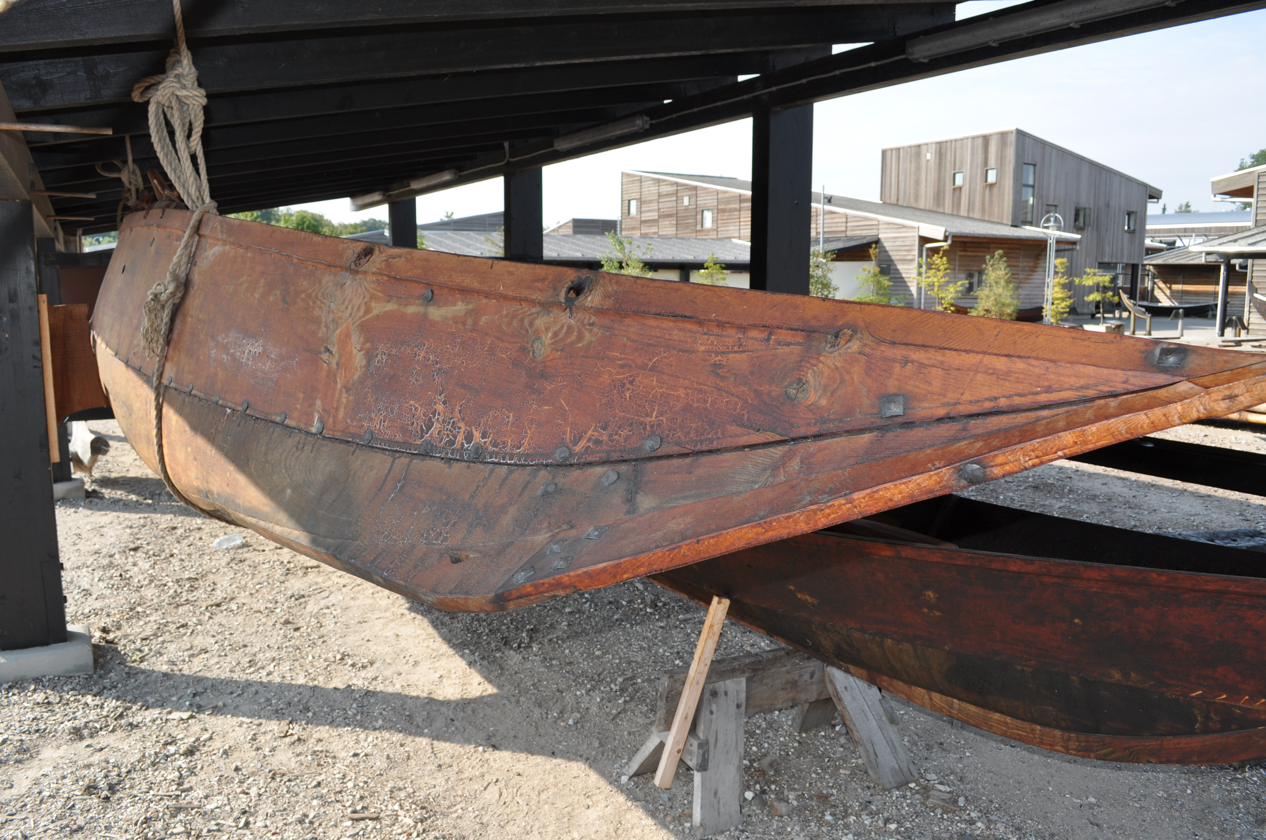 Boat from Hille--Hillebåten Replika from Vikingshipmuseum